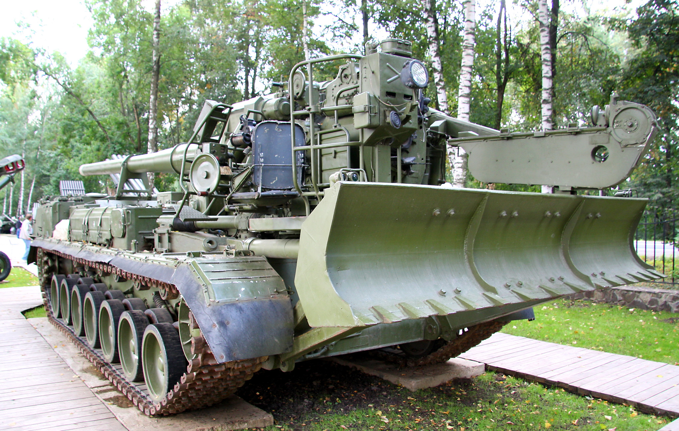 203-mm 2S7 Pion self-propelled gun